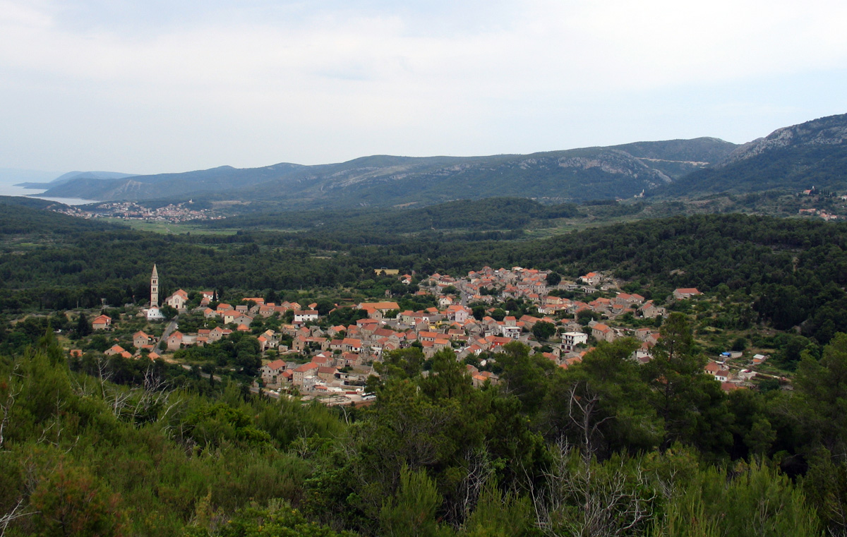 view from hill Hum on the village of Vrbanj (island Hvar)